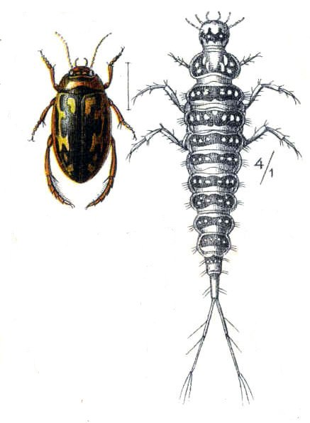 Platambus maculatus - picture modified from Reitter 1909, table shown on Image:Reitter_Agabus_u.a..jpg.